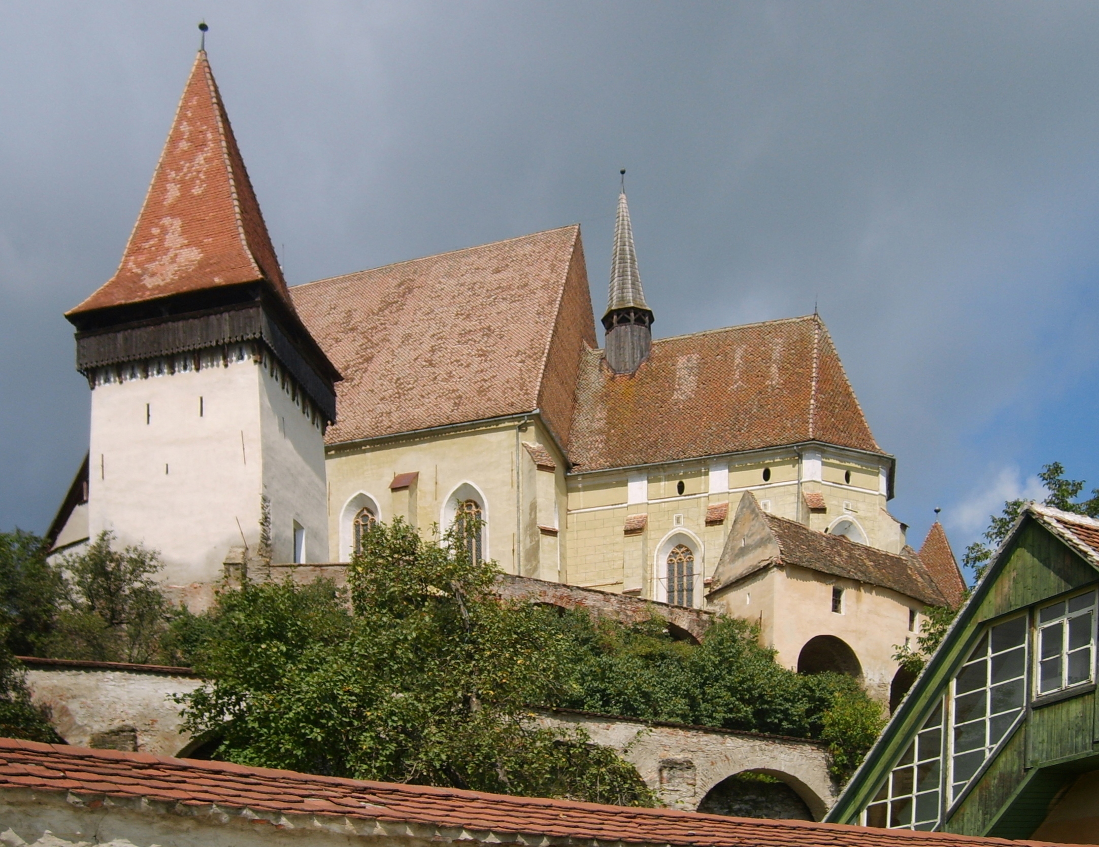 The fortified church of Biertan. From this view it is possible to see the three protecting walls